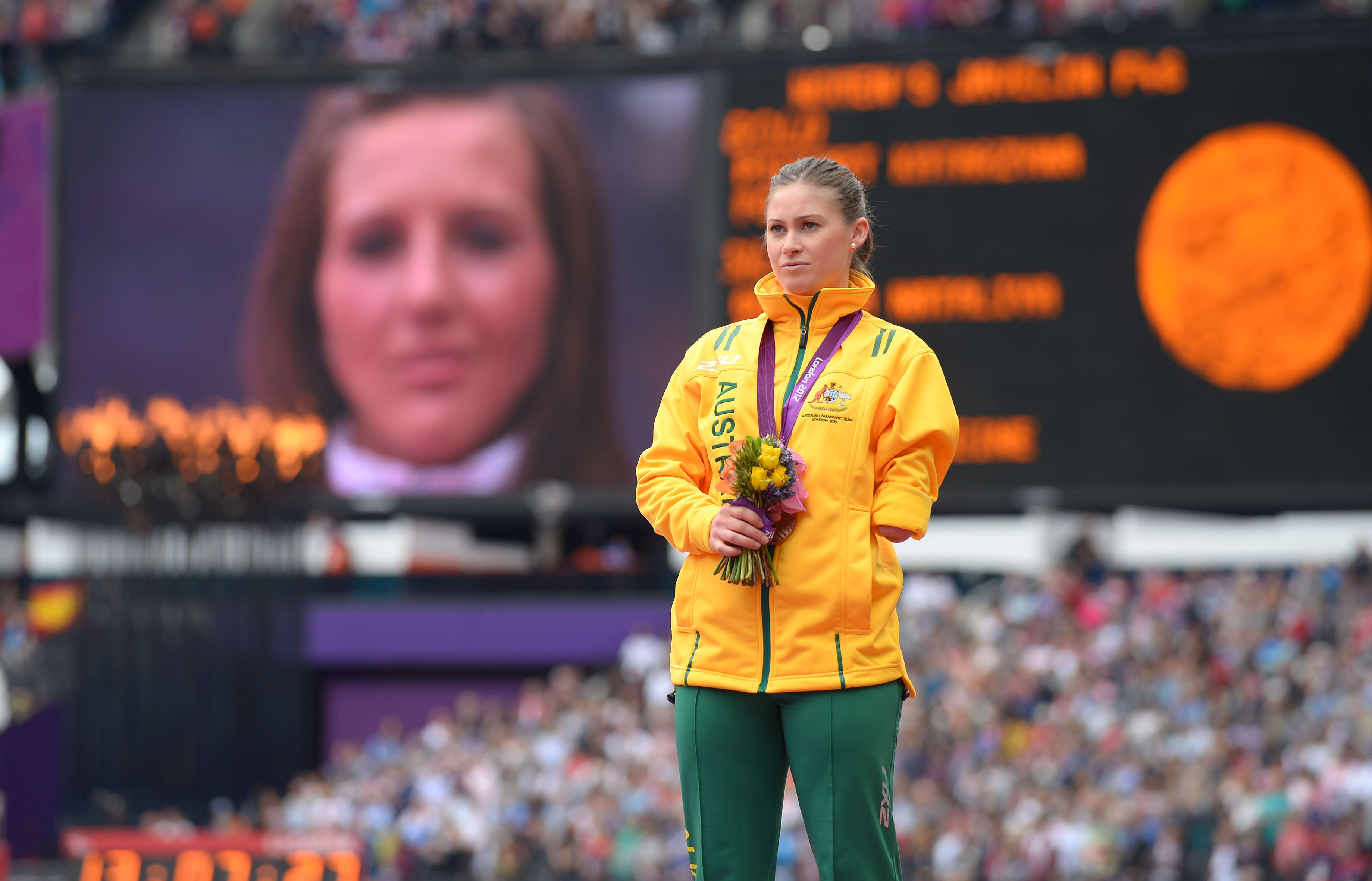 Photograph of Australian Paralympic team member Madeleine Hogan at the 2012 Summer Paralympic Games in London